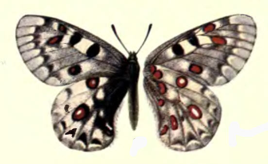 Parnassius jacquemonti = Parnassius jacquemontii Boisduval, 1836, upperwing (left) and underwing (right)